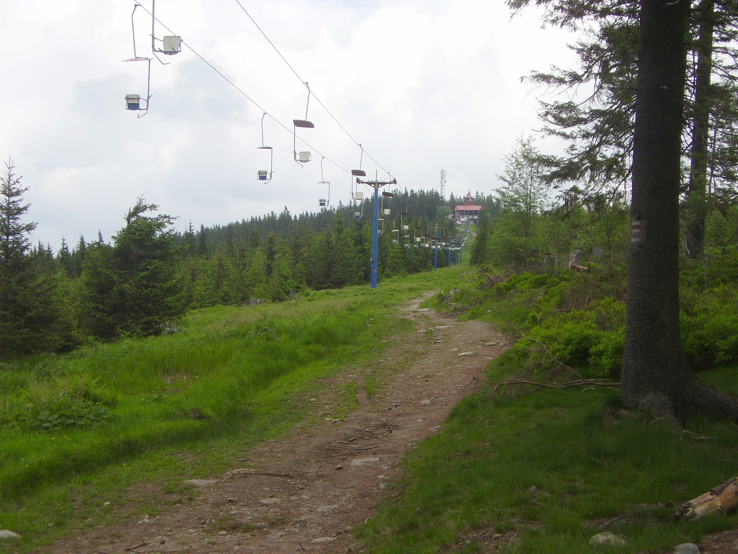 Cableway Špičák - Hofmanky - Pancíř, look at Pancíř